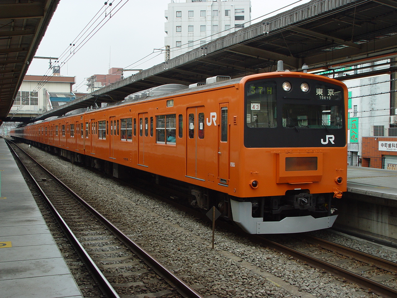 JR East 201 series EMU set 43 at Mitaka Station on a Chuo Line (Rapid) service to Tokyo